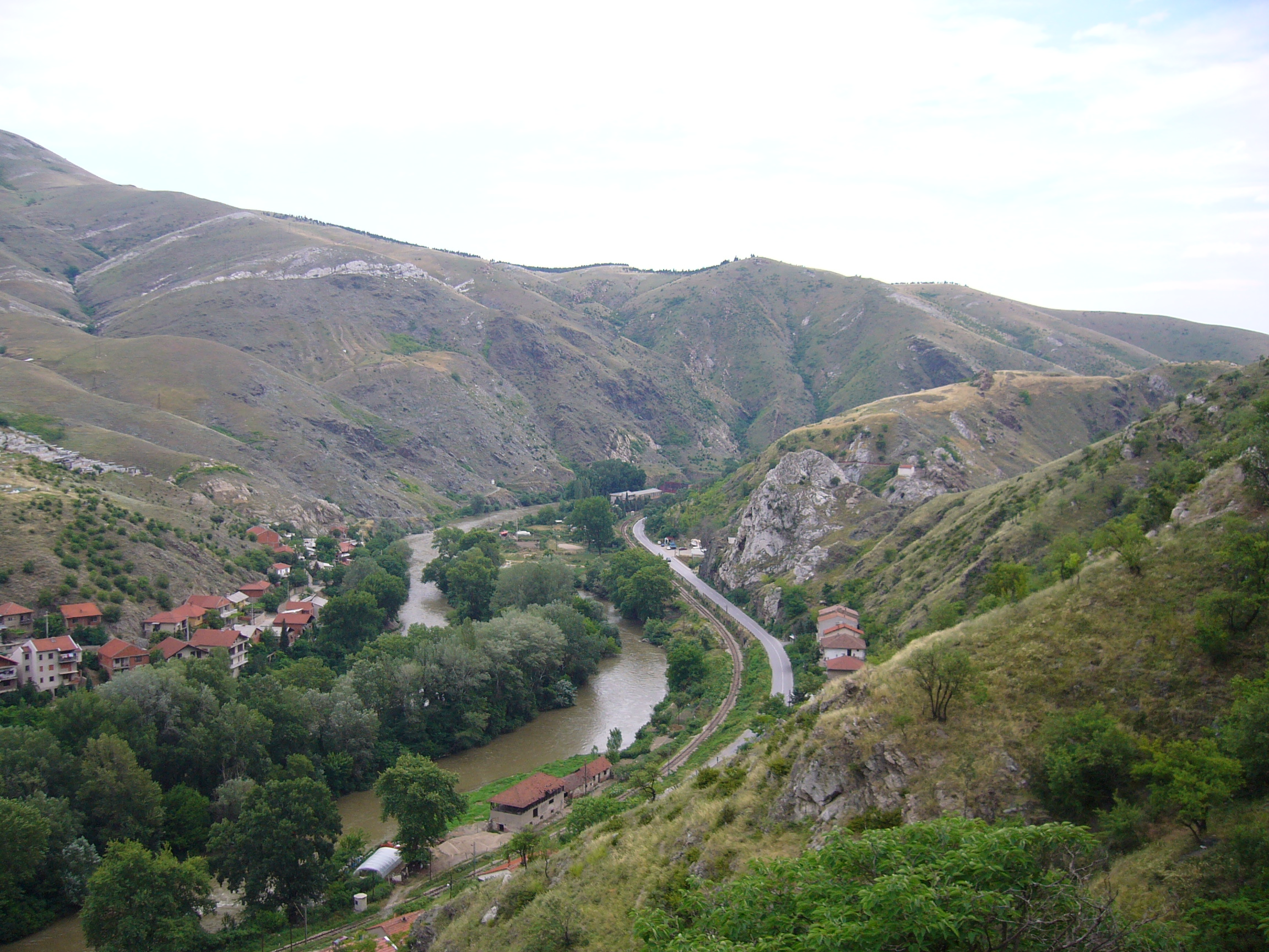 Starting point of the Veles Gorge at Vardar river in the R.o.Macedonia Почетокот на Велешката клисура, на излезот на реката Вардар, од градот Велес, Македонија Początek weleskiego przełomu Wardaru w Macedonii